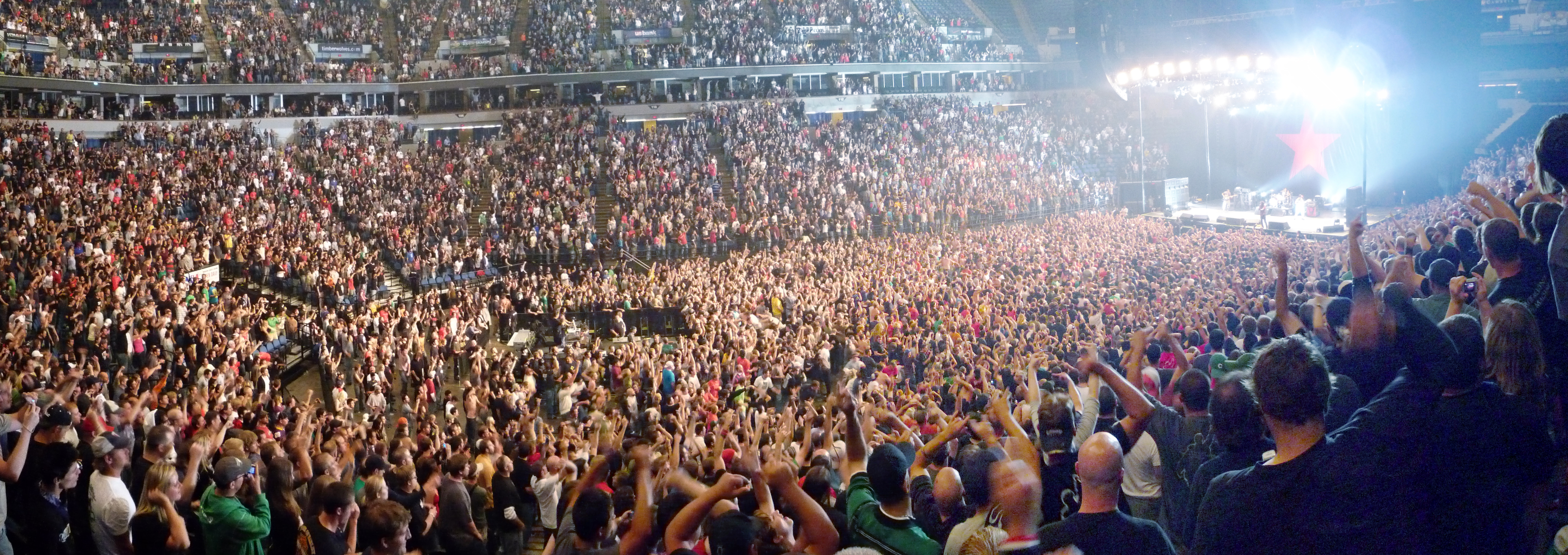 Rage Against the Machine performing at the Target Center in downtown Minneapolis, Minnesota; the same day the 2008 Republican National Convention was occurring in the Twin Cities.